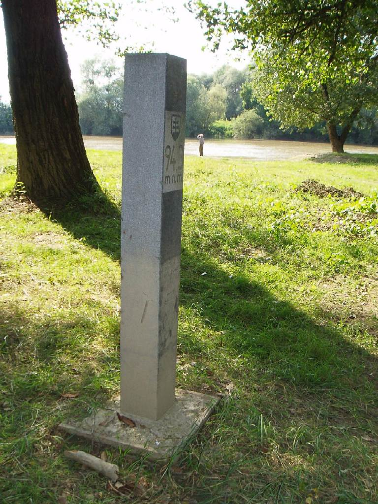 The lowest place in Slovakia 94.3 m AMSL. In this place leaves the river Bodrog Slovakia